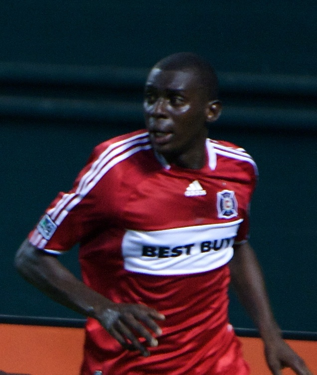 This file has been extracted from another file: Bakary Soumare vs DC United.jpg